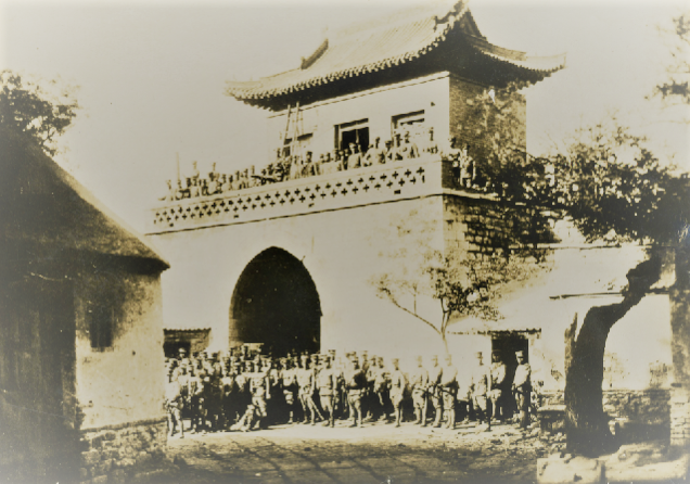 Japanese soldiers atop a gate in the walled city of Jinan, after occupying the city during the Jinan incident.